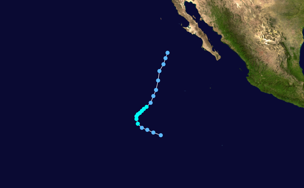 Tropical Storm Octave (1983) track. Uses the color scheme from the Saffir-Simpson Hurricane Scale.